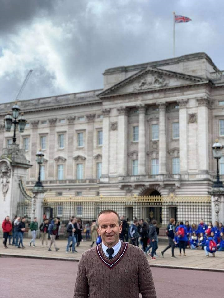 Dr Dragan Djokanovic in London